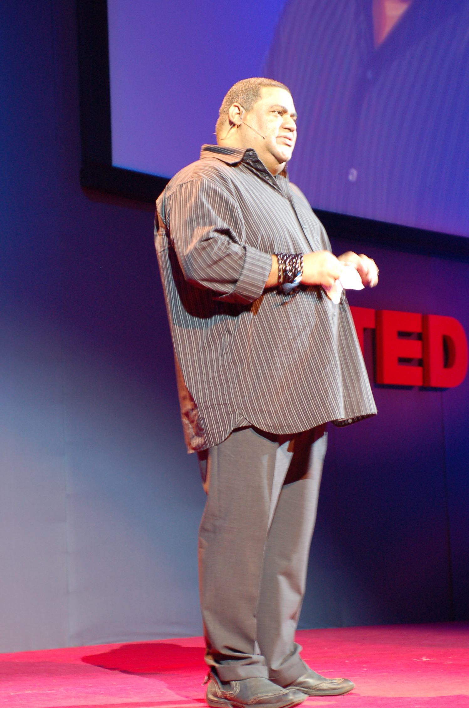 Chris Abani, Nigerian writer, at the TEDGlobal 2007